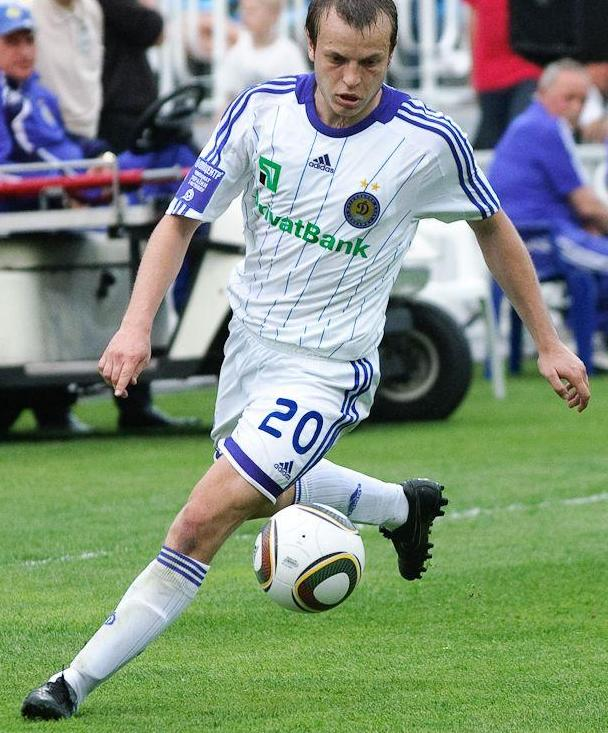 Oleh Husyev